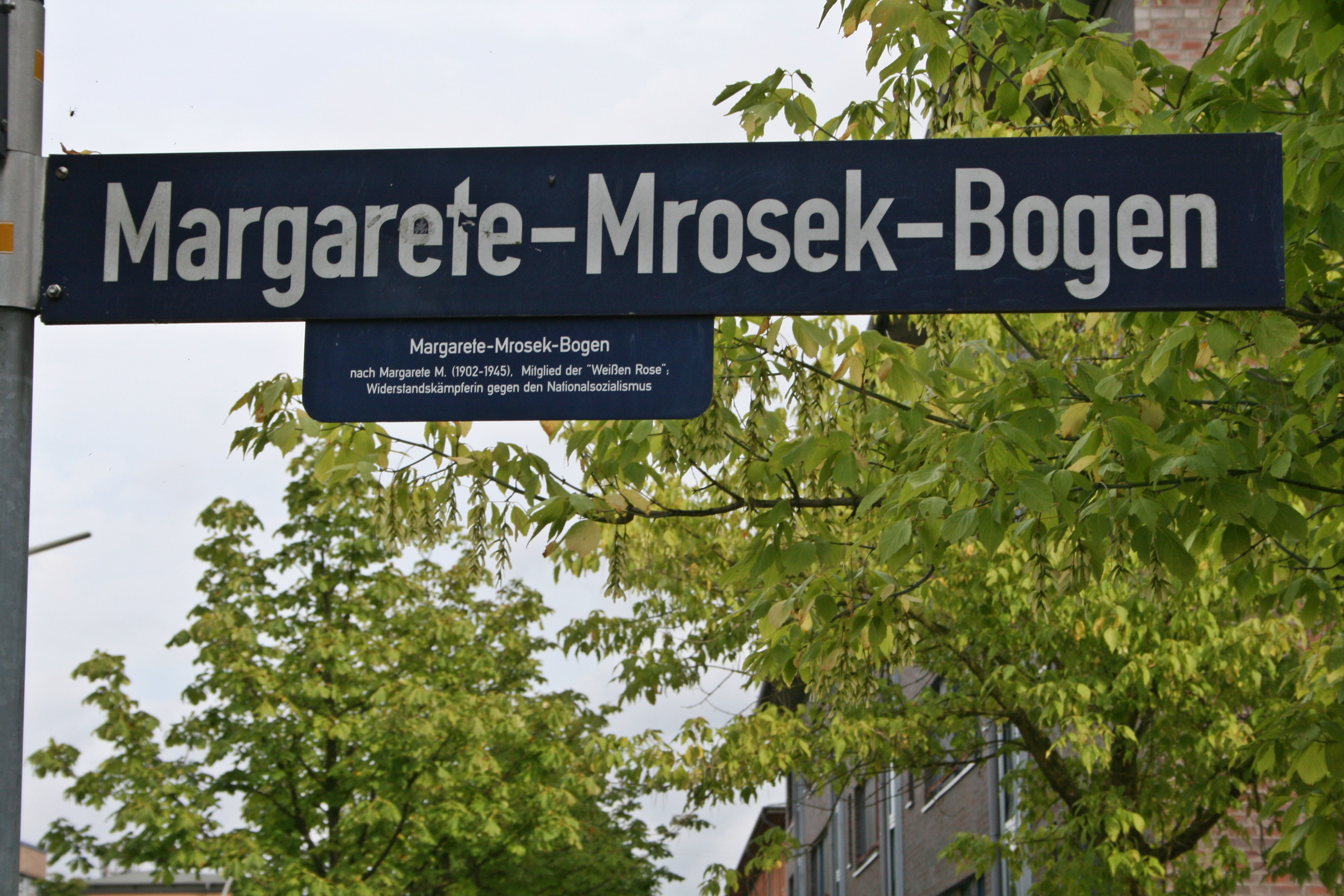 Road sign of the Margarete-Mrosek-Bogen, named after a member of the resistance against Nazism